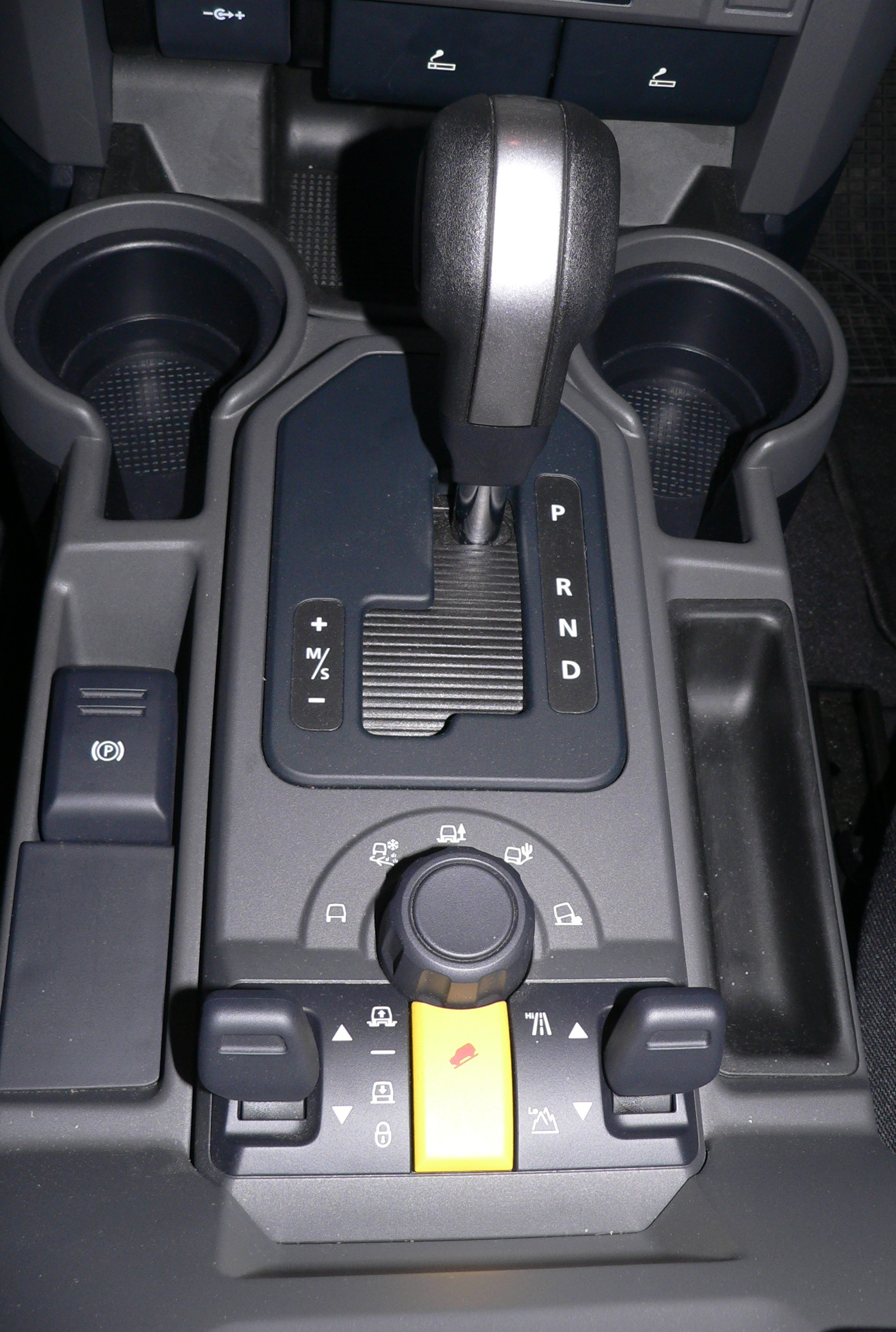 Terrain Response on Land Rover Discovery 3 cars